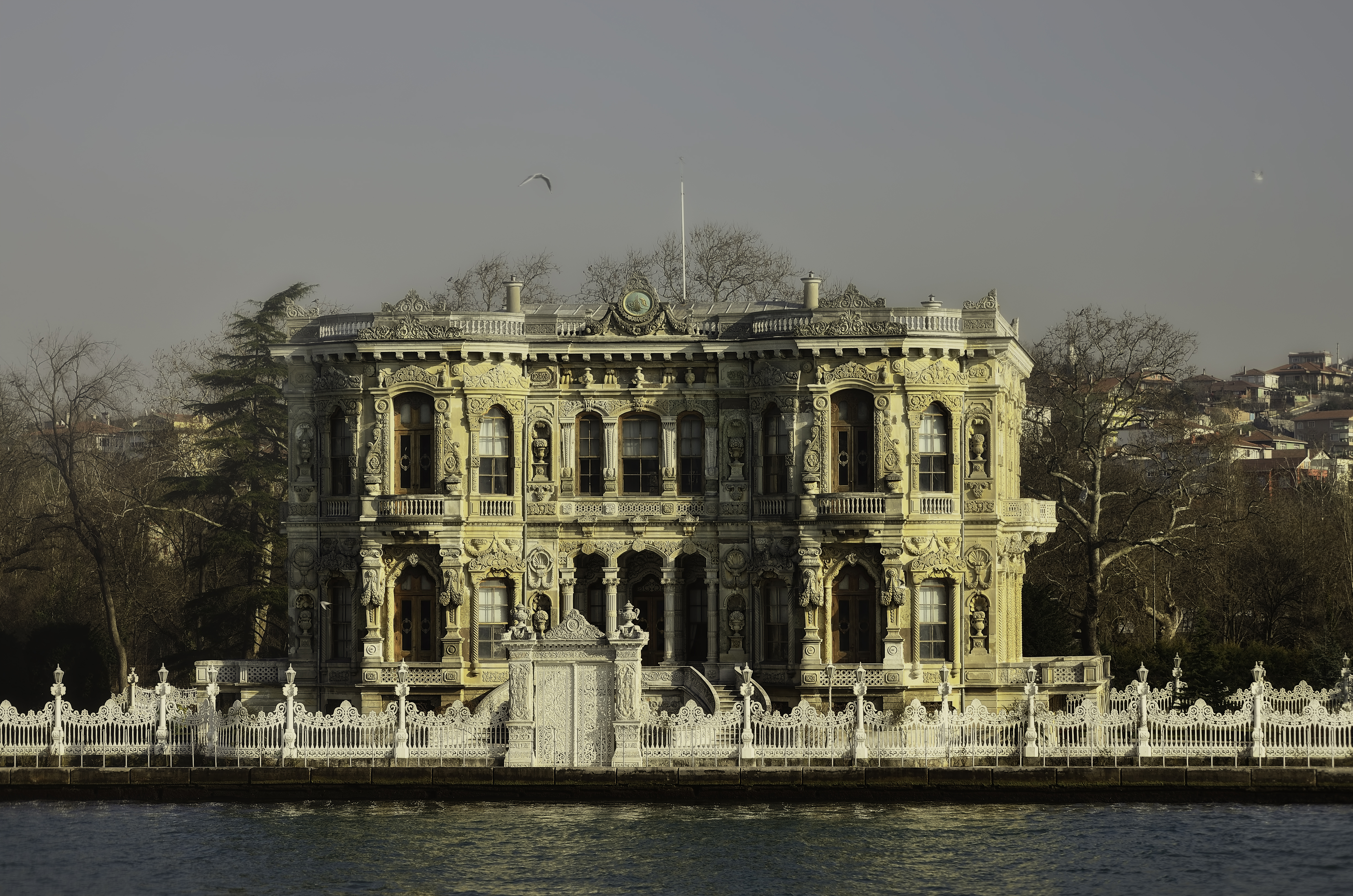 Küçüksu Palace or Küçüksu Pavilion, aka Göksu Pavilion, (Turkish: Küçüksu Kasrı) is a summer palace in Istanbul, Turkey, situated in the Küçüksu neighborhood of Beykoz district on the Asian shore of the Bosphorus between Anadoluhisarı and the Fatih Sultan Mehmet Bridge. The tiny palace was used by Ottoman sultans for short stays during country excursions and hunting.